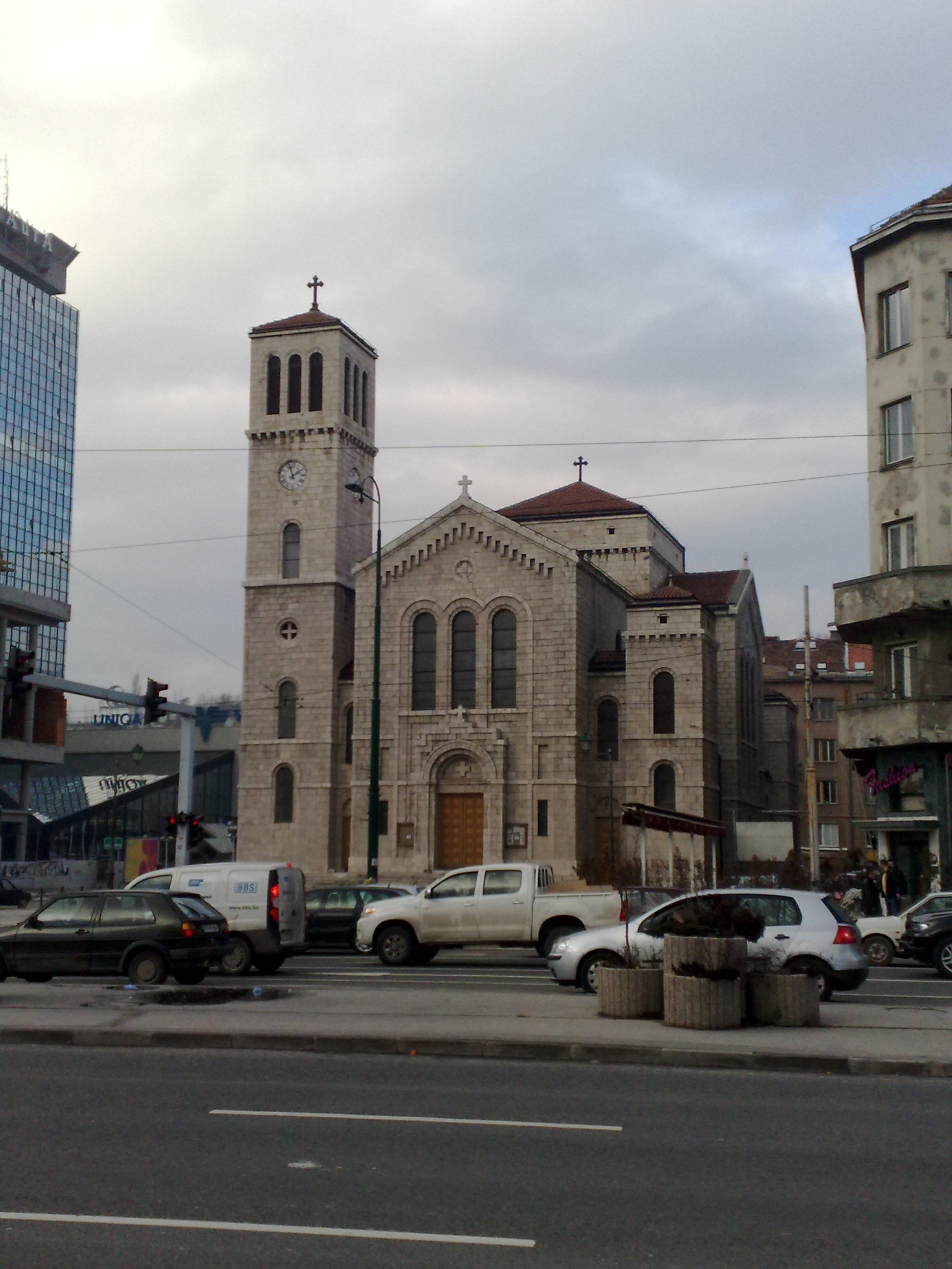 Church of st. Joseph, Sarajevo